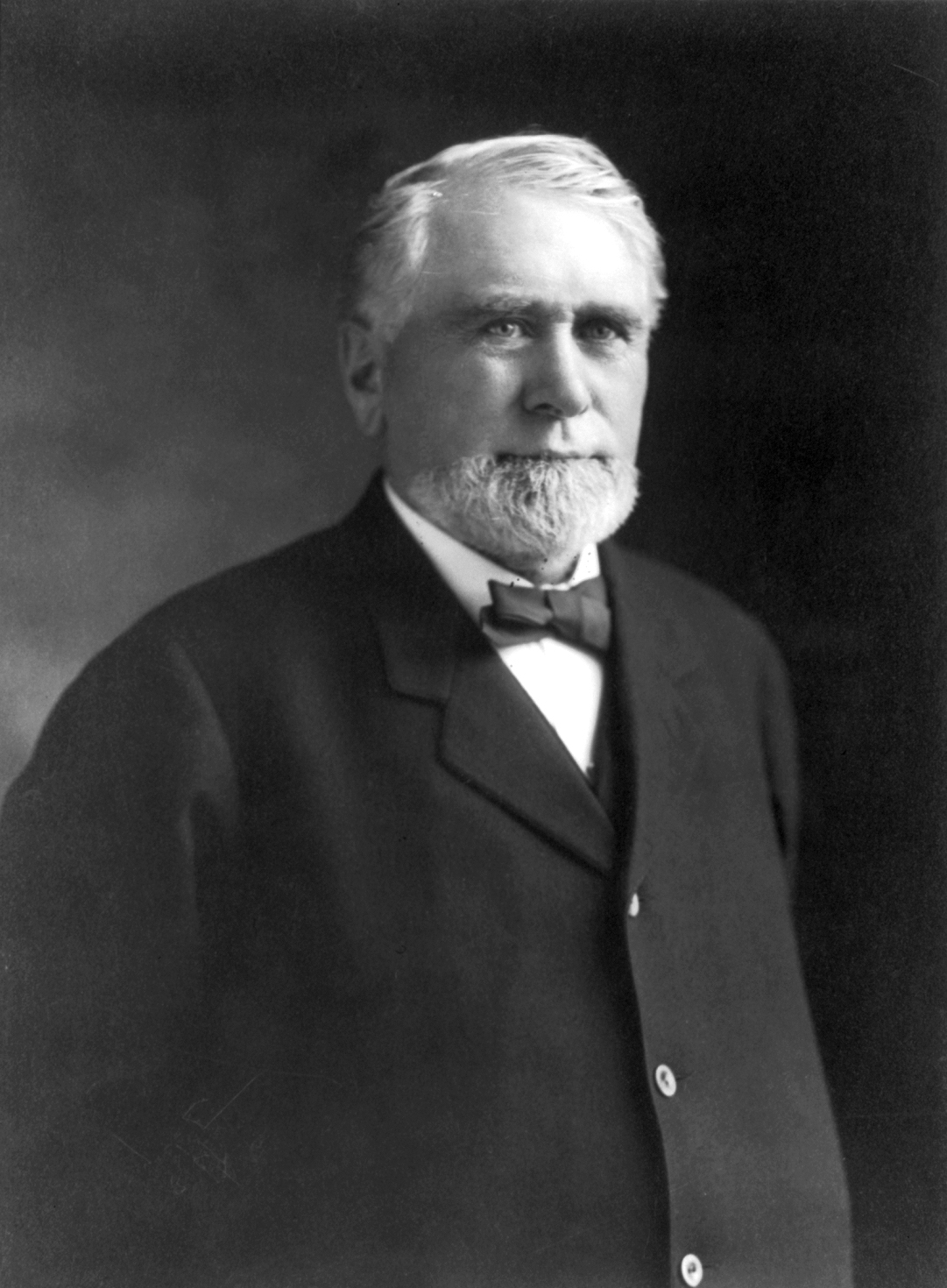 Knute Nelson, half-length portrait, facing right